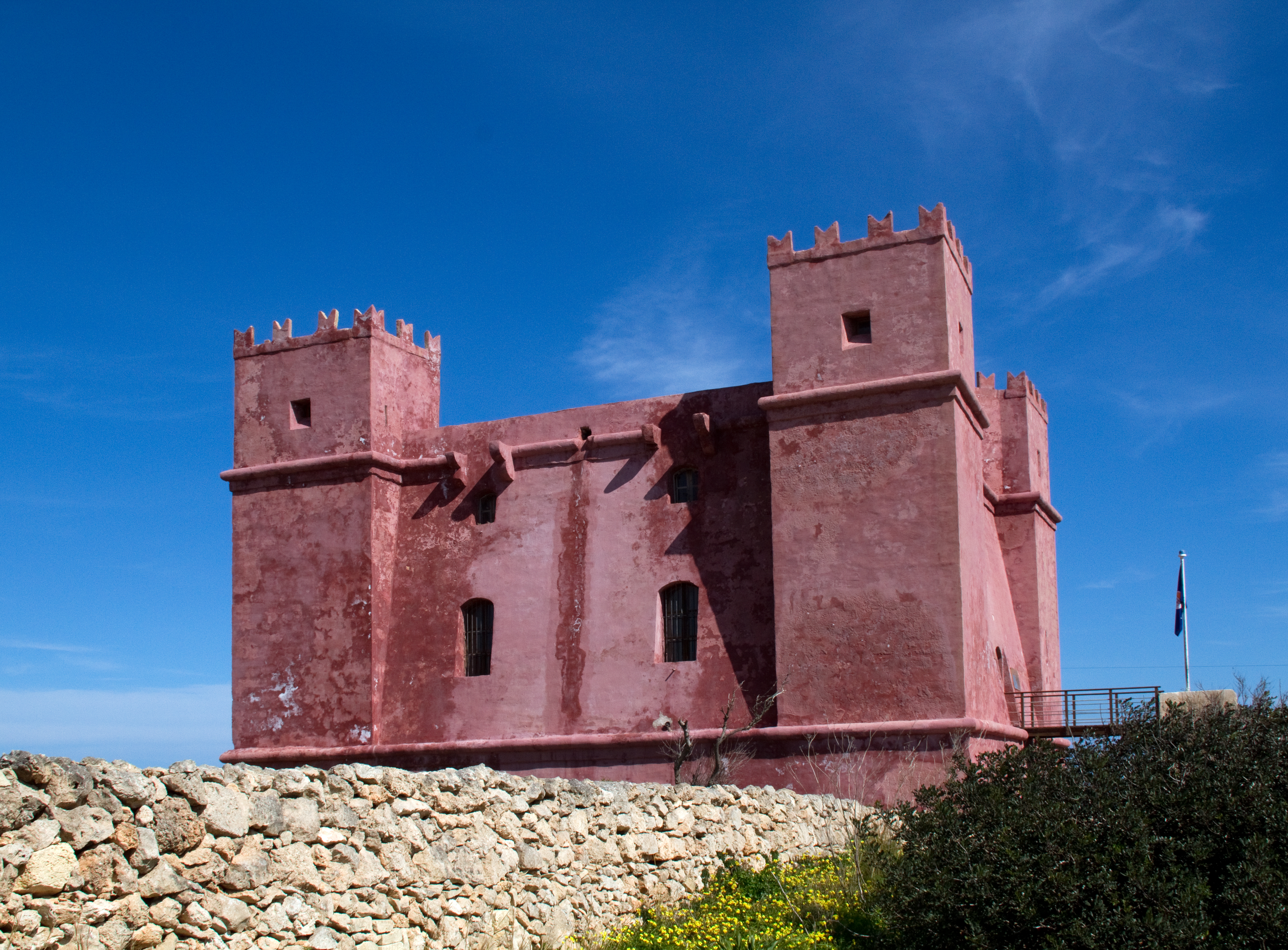 Red Tower 1